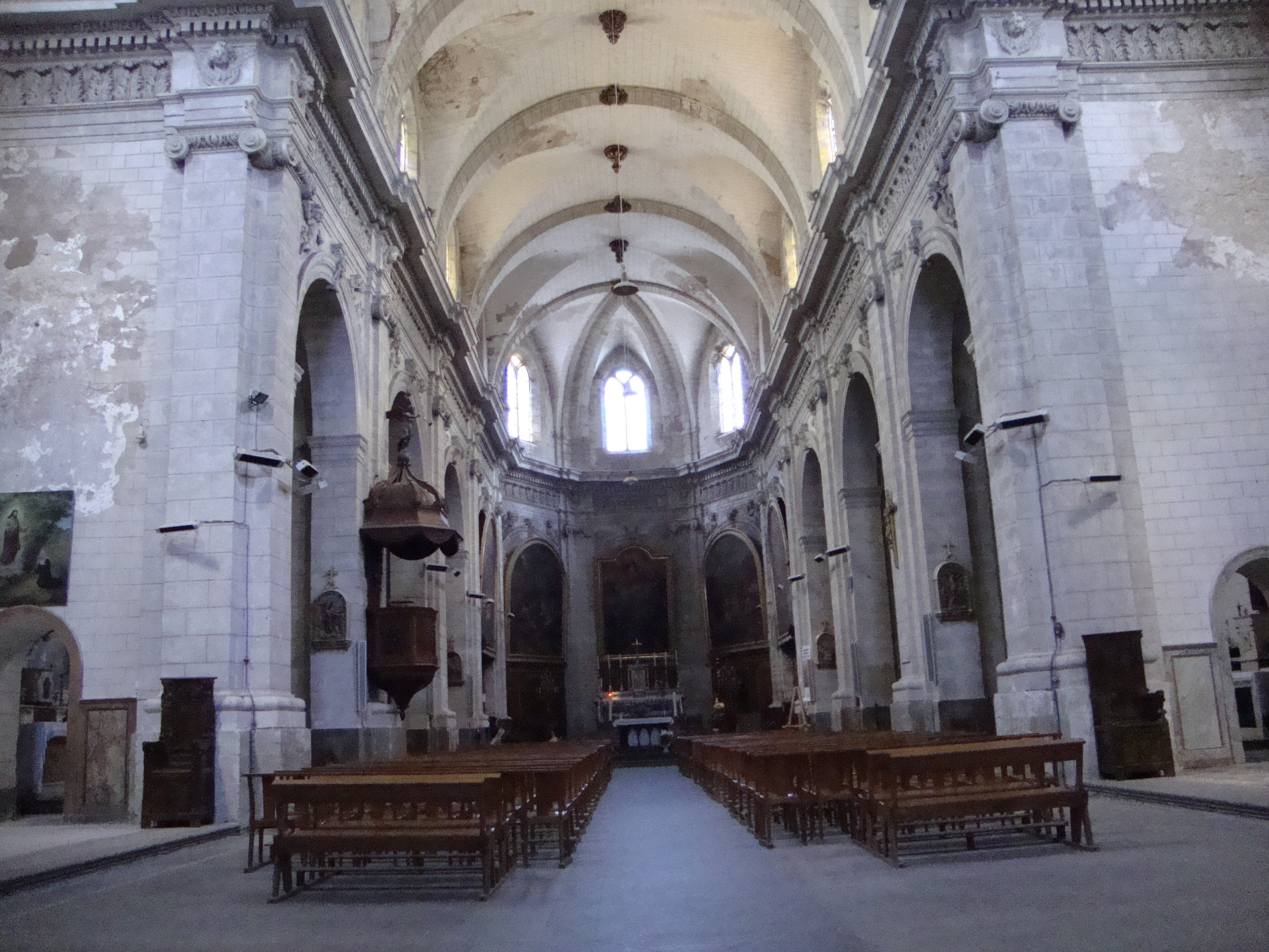 Aniane (Hérault, Fr) church interior